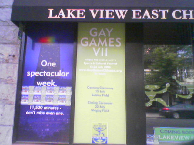 Photo by Gerald Farinas --Gerald Farinas 22:10, 27 June 2006 (UTC)